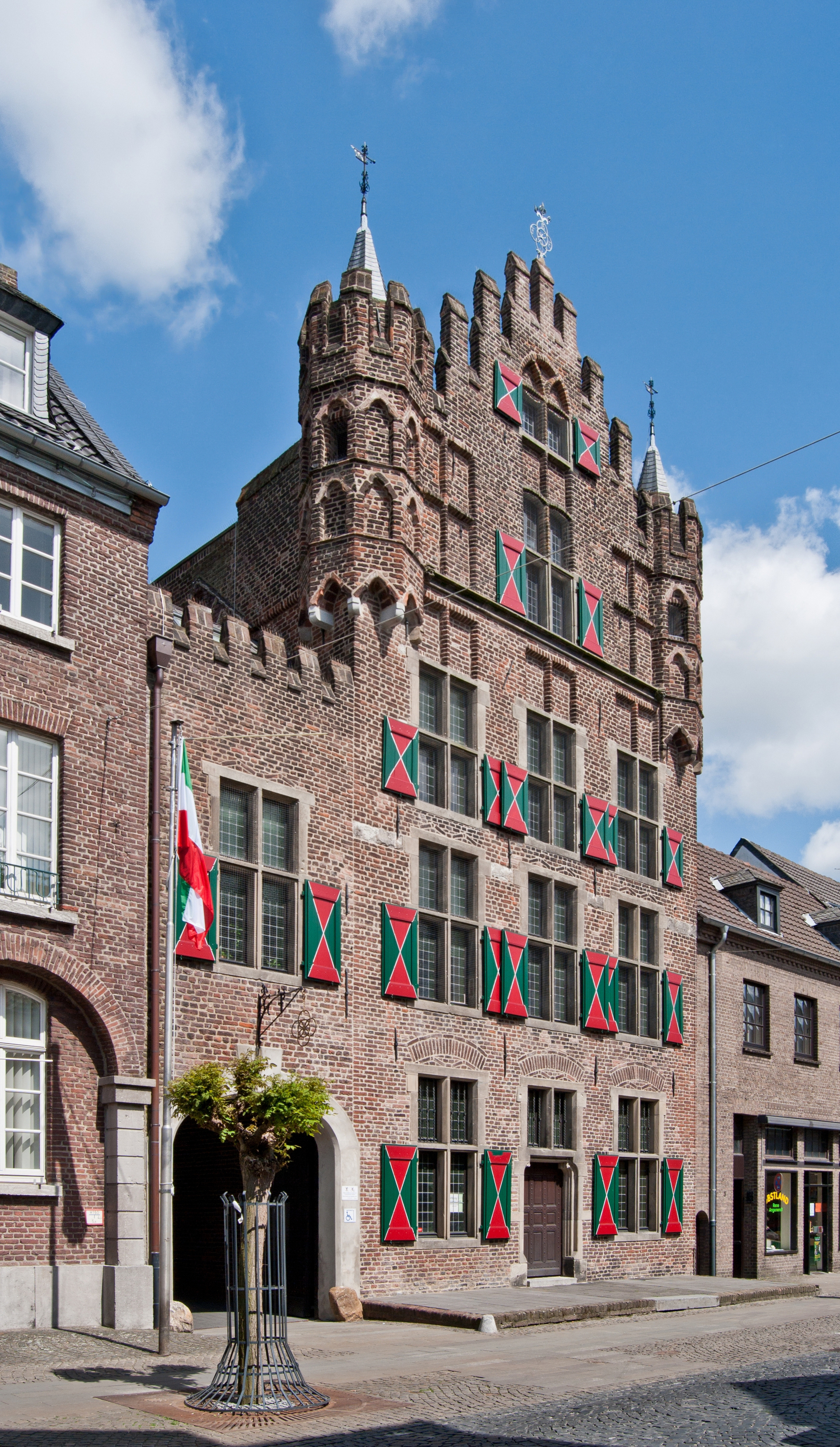 Goch (North Rhine-Westphalia, Germany) – Gothic patrician residental building Haus zu den Fünf Ringen This image shows a heritage building in Germany, located in the North Rhine-Westphalian city Goch (no. 8). This photograph was taken with a Nikon D3000